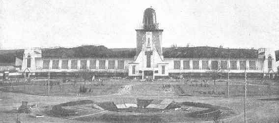 "Industrihallen" (The Industry Hall) by the Swedish architect Carl Bergsten, on the Industrial and art exhibition in Norrköping, Sweden, the summer 1906.